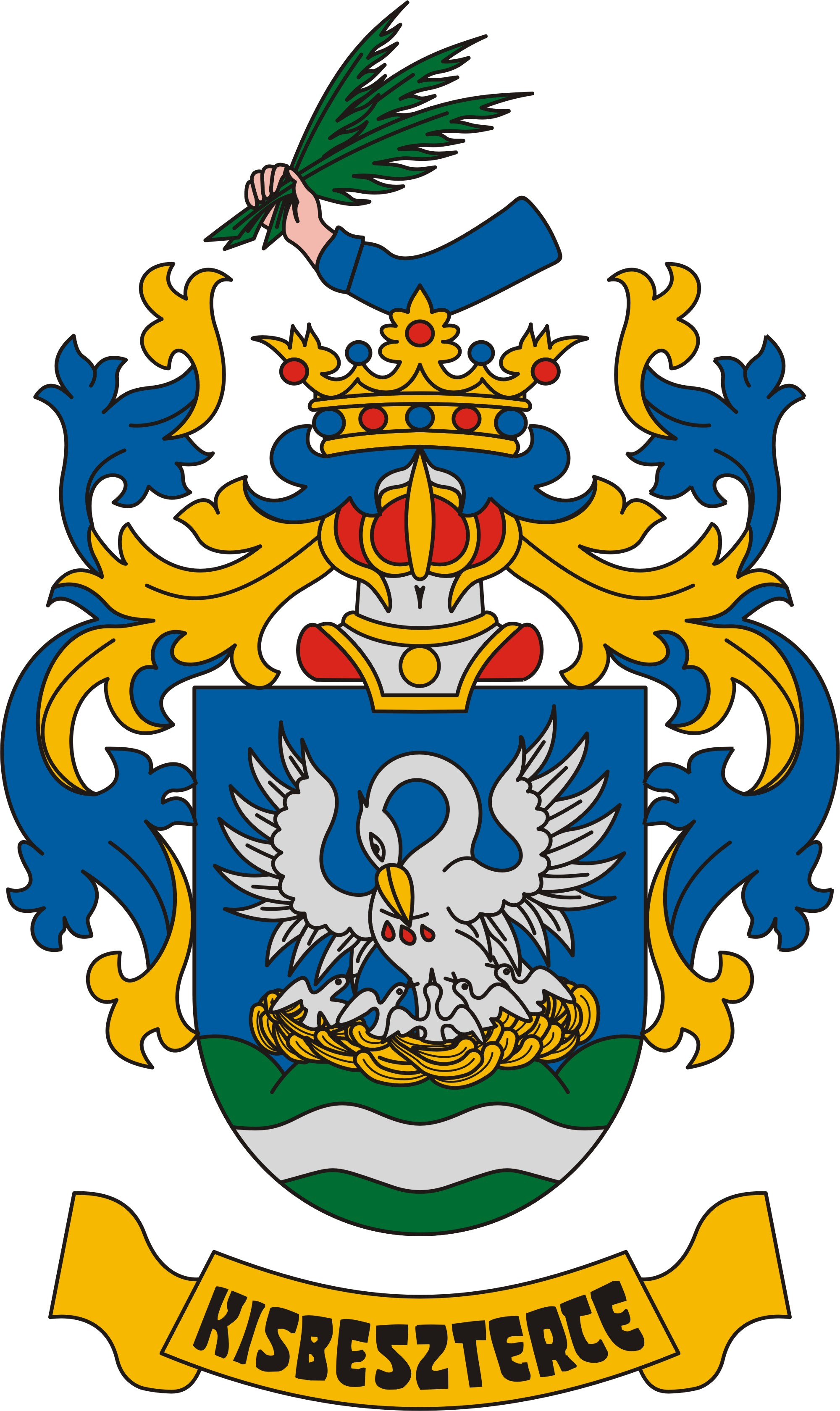 Coat of arms of Kisbeszterce, Hungary